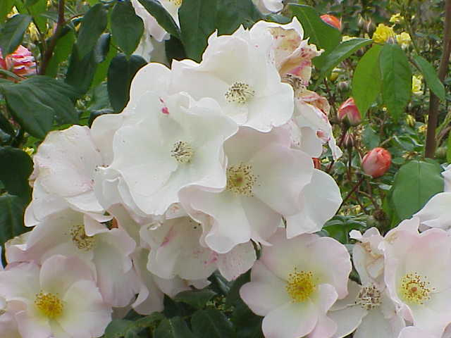 Species: Rosa sp. Family: Rosaceae Cultivar: Sally Holmes, Holmes/Fryer Image No. 259